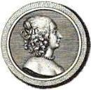 This is a copy of an engraving of a medal of Elizabeth Claypole (also spelt Cleypole). She was the second and favourite daughter of Oliver Cromwell. See page 33 of "Medals, coins, great seals, and other works of Thomas Simon"